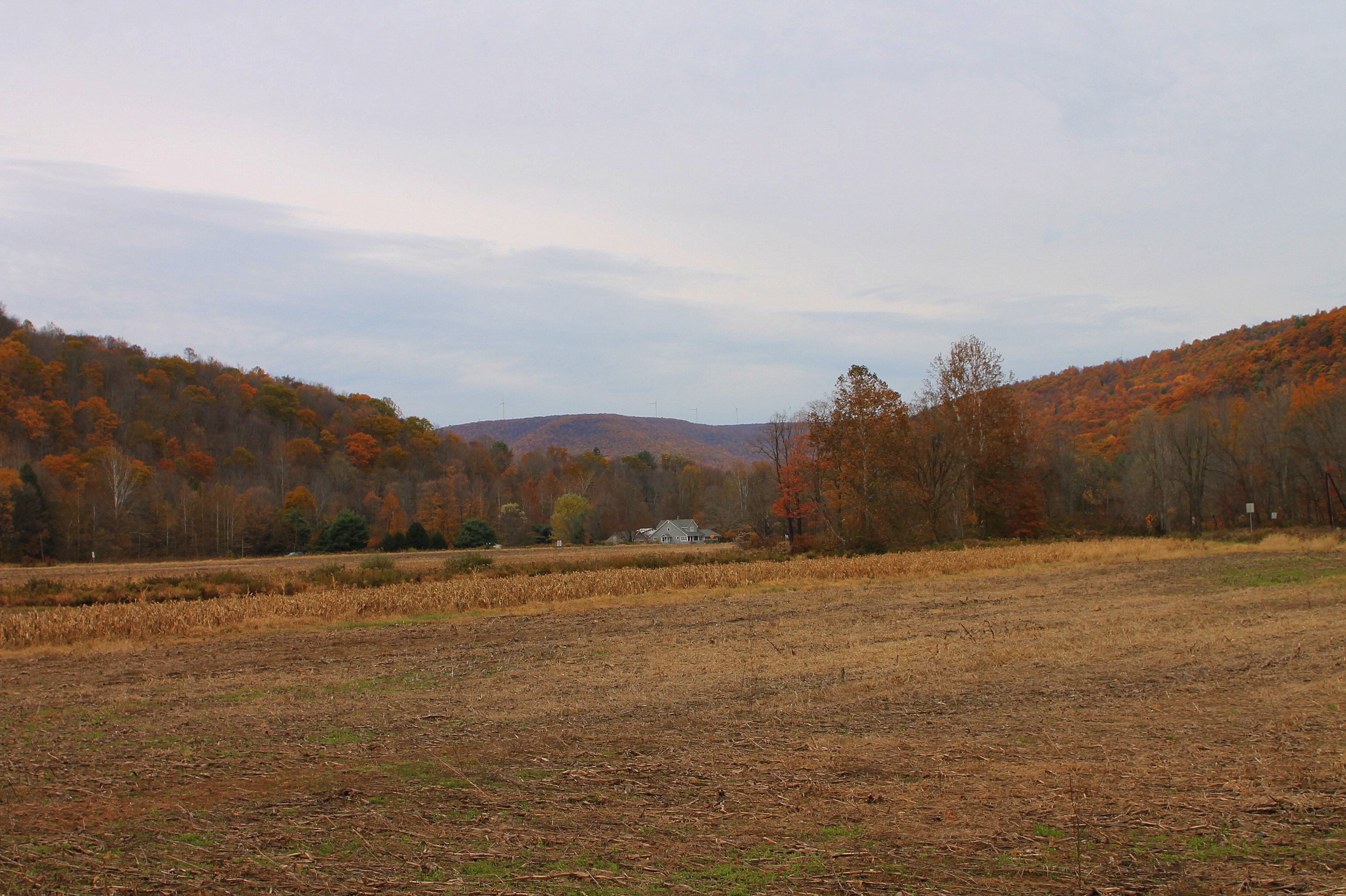 Scenery of Monroe Township, Wyoming County, Pennsylvania from Lutes Corner Road